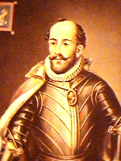 Andres Hurtado de Mendoza